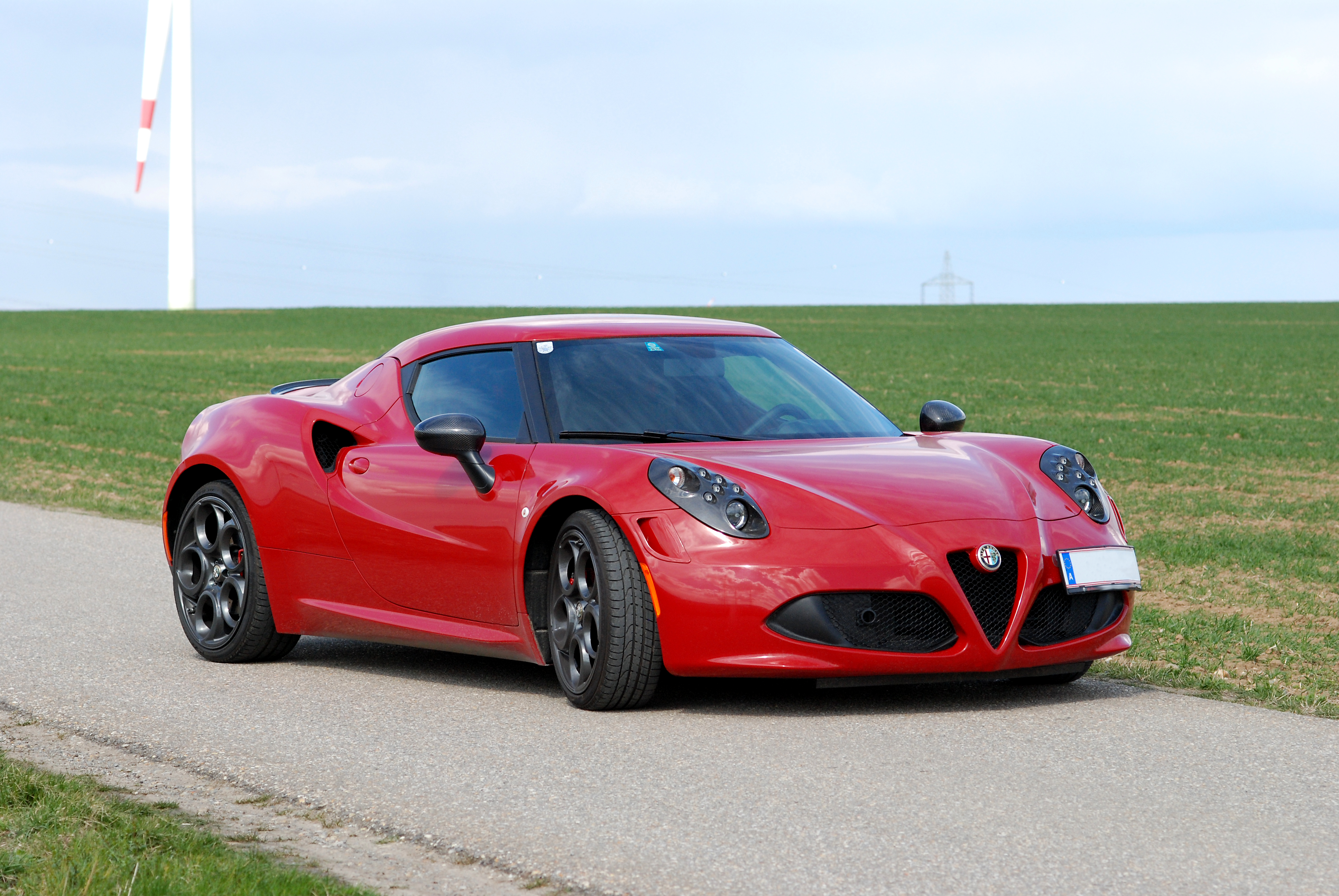 This picture shows an Alfa Romeo 4C from the left front.